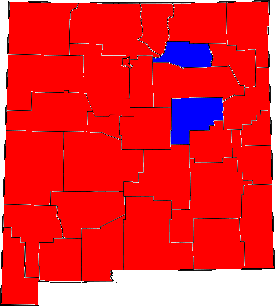 This is a county-level view of the United States Senate election in New Mexico, 1996, because the original picture on the article was egregiously incorrect.